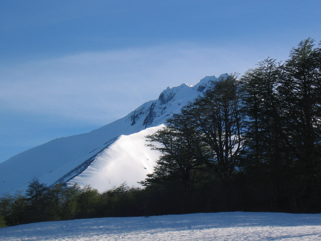 A view of the Choshuenco volcano in November. I took the photo.